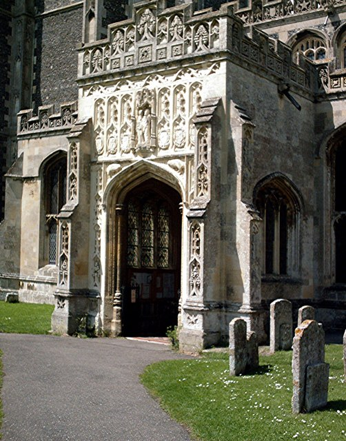 Porch, St. Peter and St. Paul, Lavenham Ornate porch as befits such a magnificent parish church.